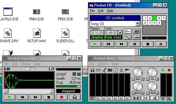 Mixer, CD playback and record utility for the Media Vision Pro Audio Spectrum cards